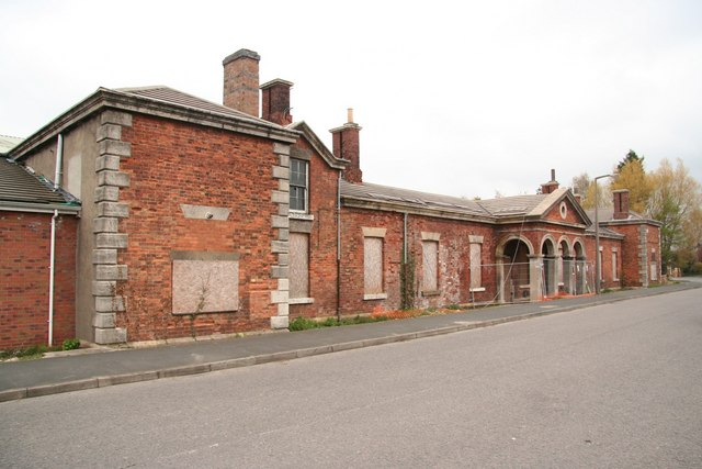 Alford Station